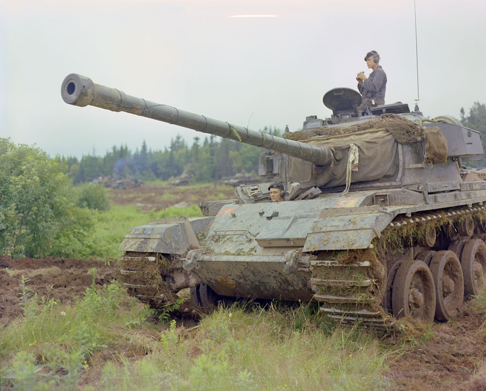 Centurion tank of the Canadian Army. Original title: Summer Concentration Gagetown 1963.